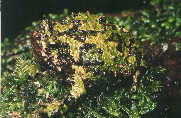 Ranomafana National Park Scaphiophryne marmorata